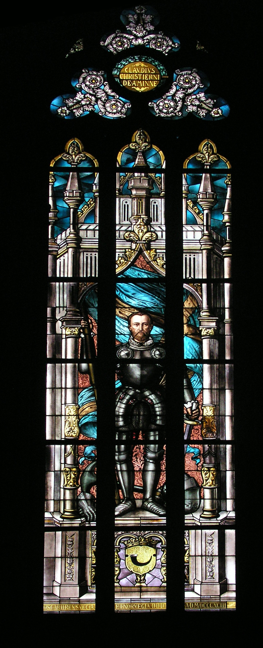 Uppsala domkyrka / Uppsala cathedral. Oscar II, King of Sweden and Norway, A.D. 1893